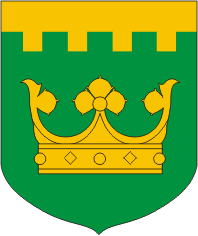 Coat of arms of Põltsamaa linn, Estonia